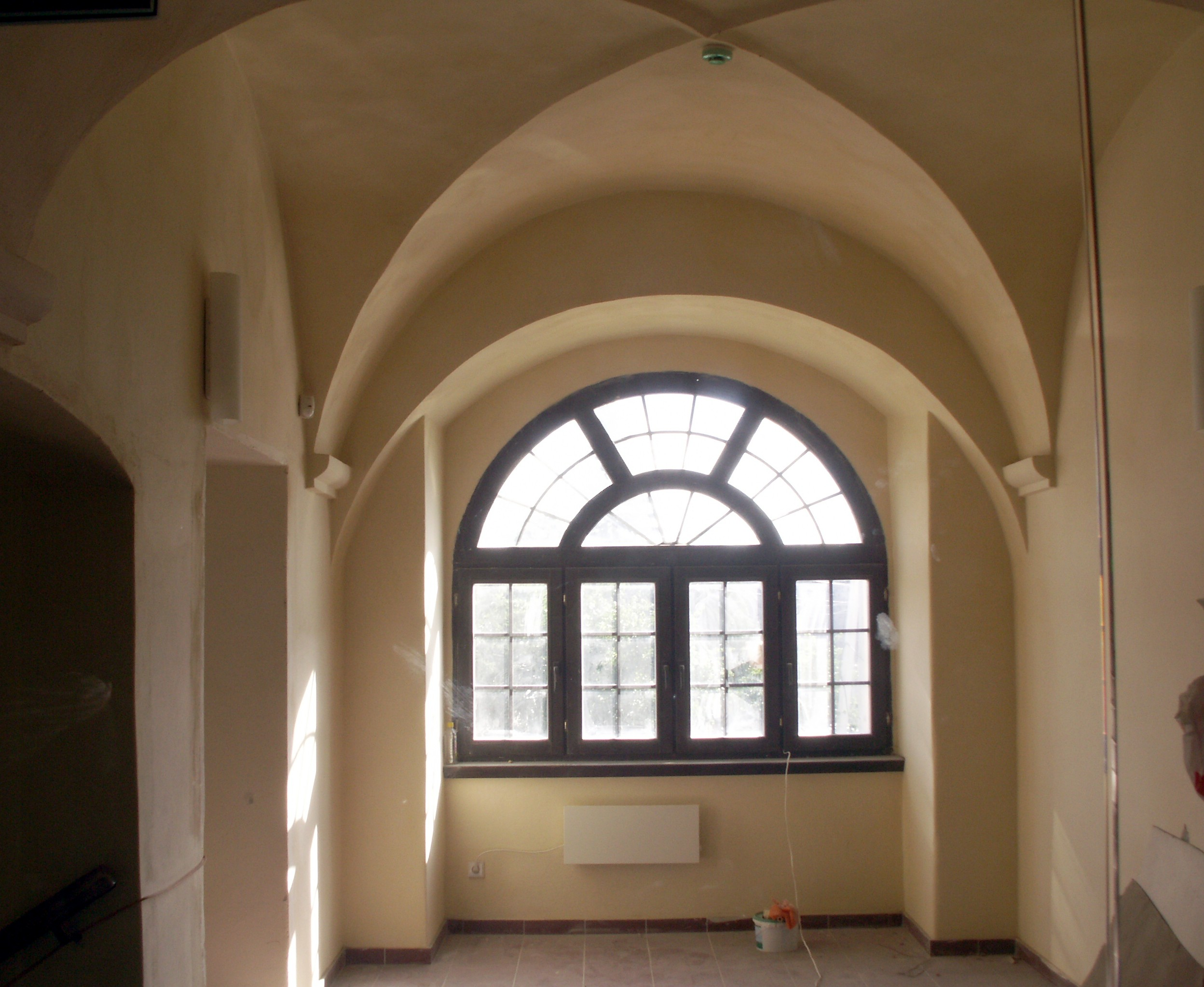 Kražiai collegium